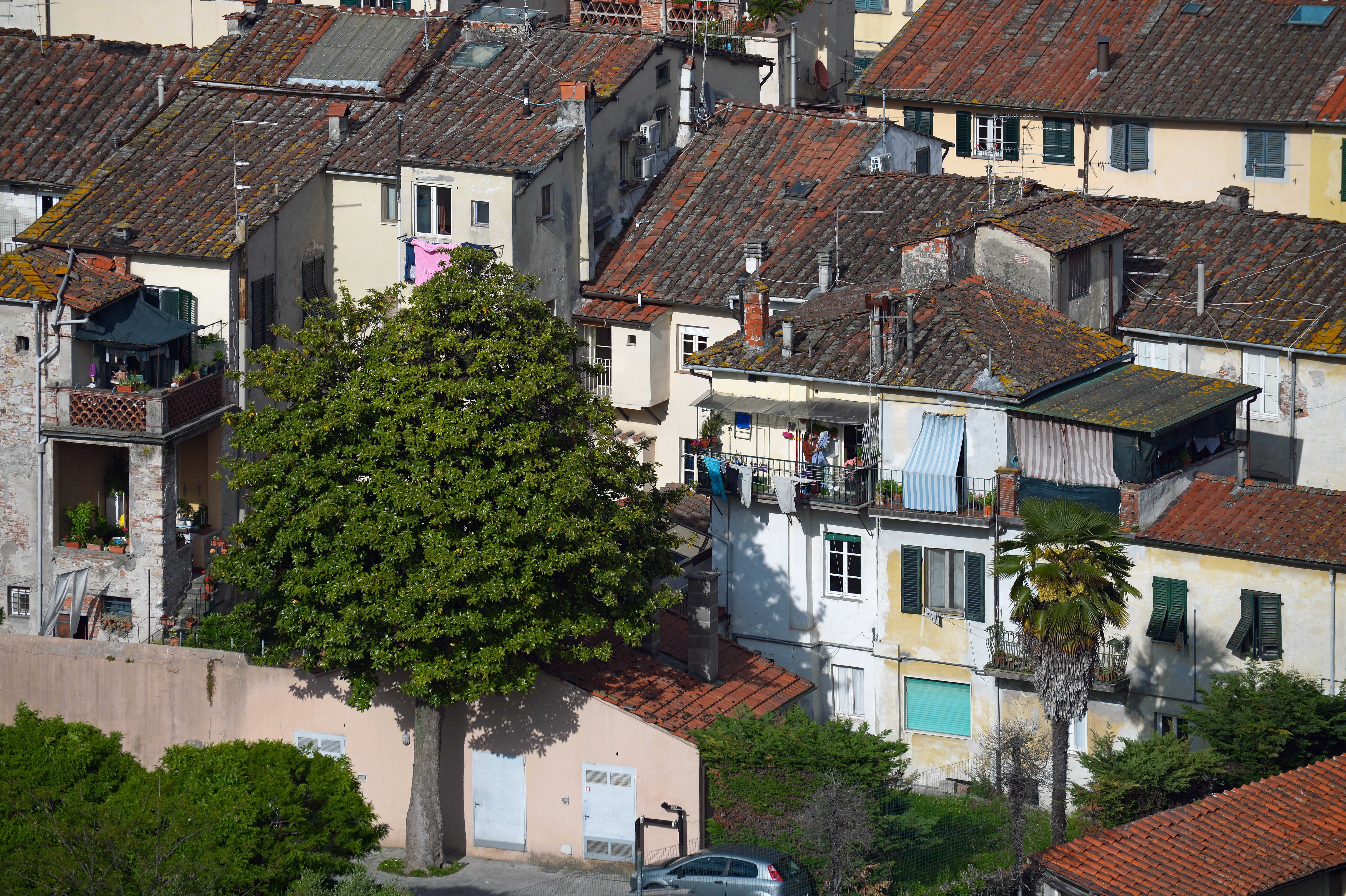 The old blocks of Lucca. Italy